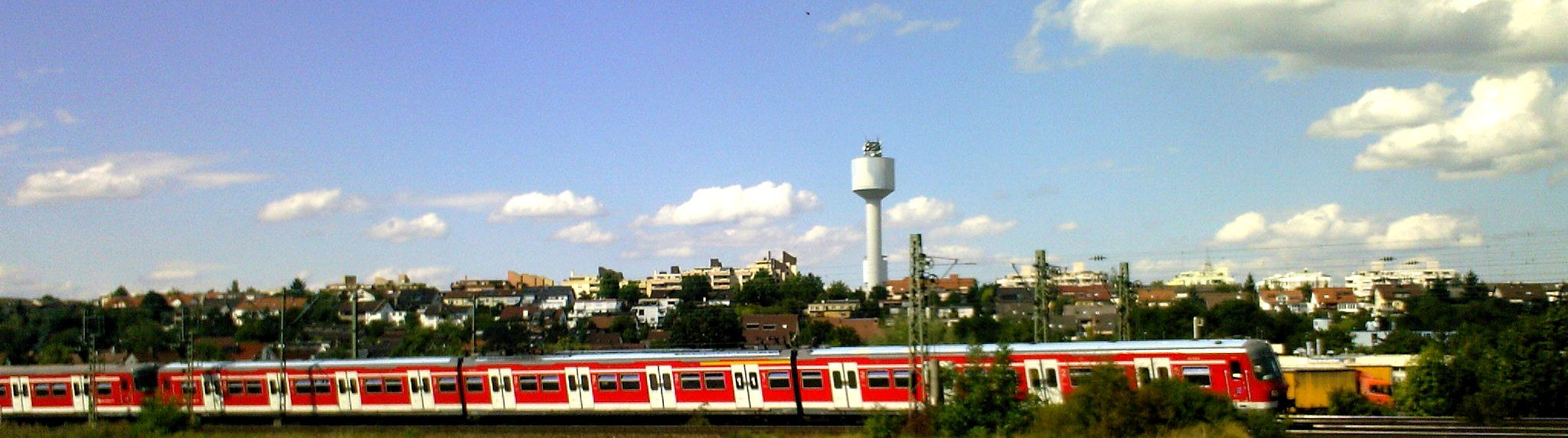 Tamm Hohenstange with the S-Bahn in direction of Stuttgart in front